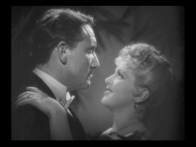 This screenshot shows Spencer Tracy and Lana Turner in an intimate scene.